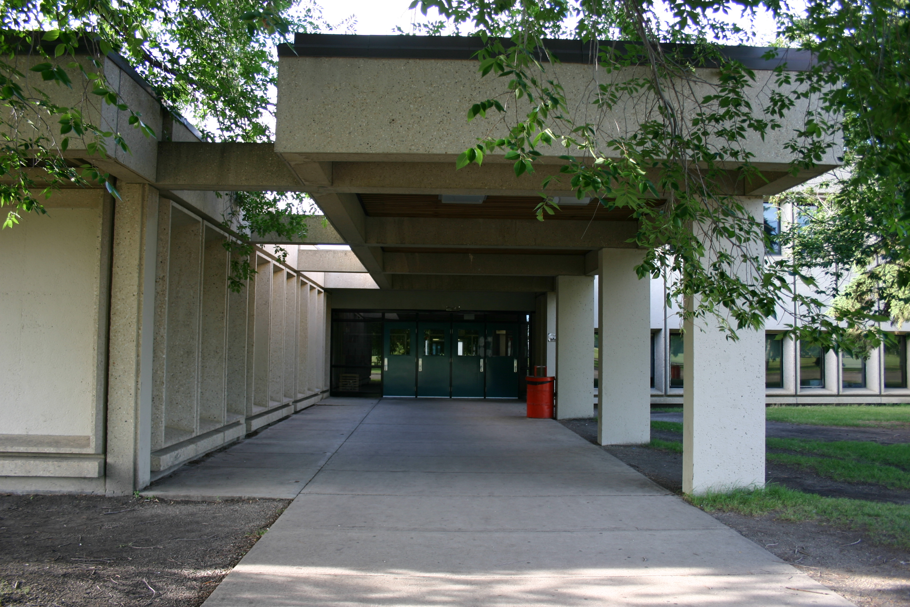 Main Entrance